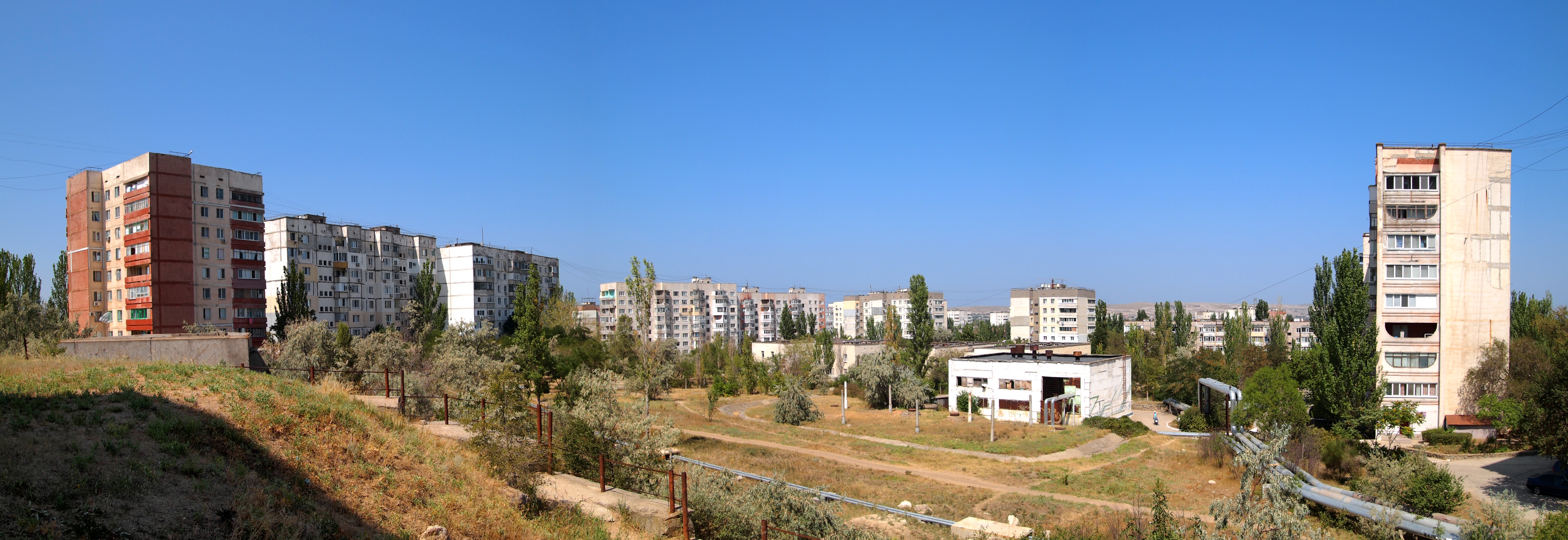 Panoramic view in Shcholkine. This photograph was taken with an Olympus E-PL1